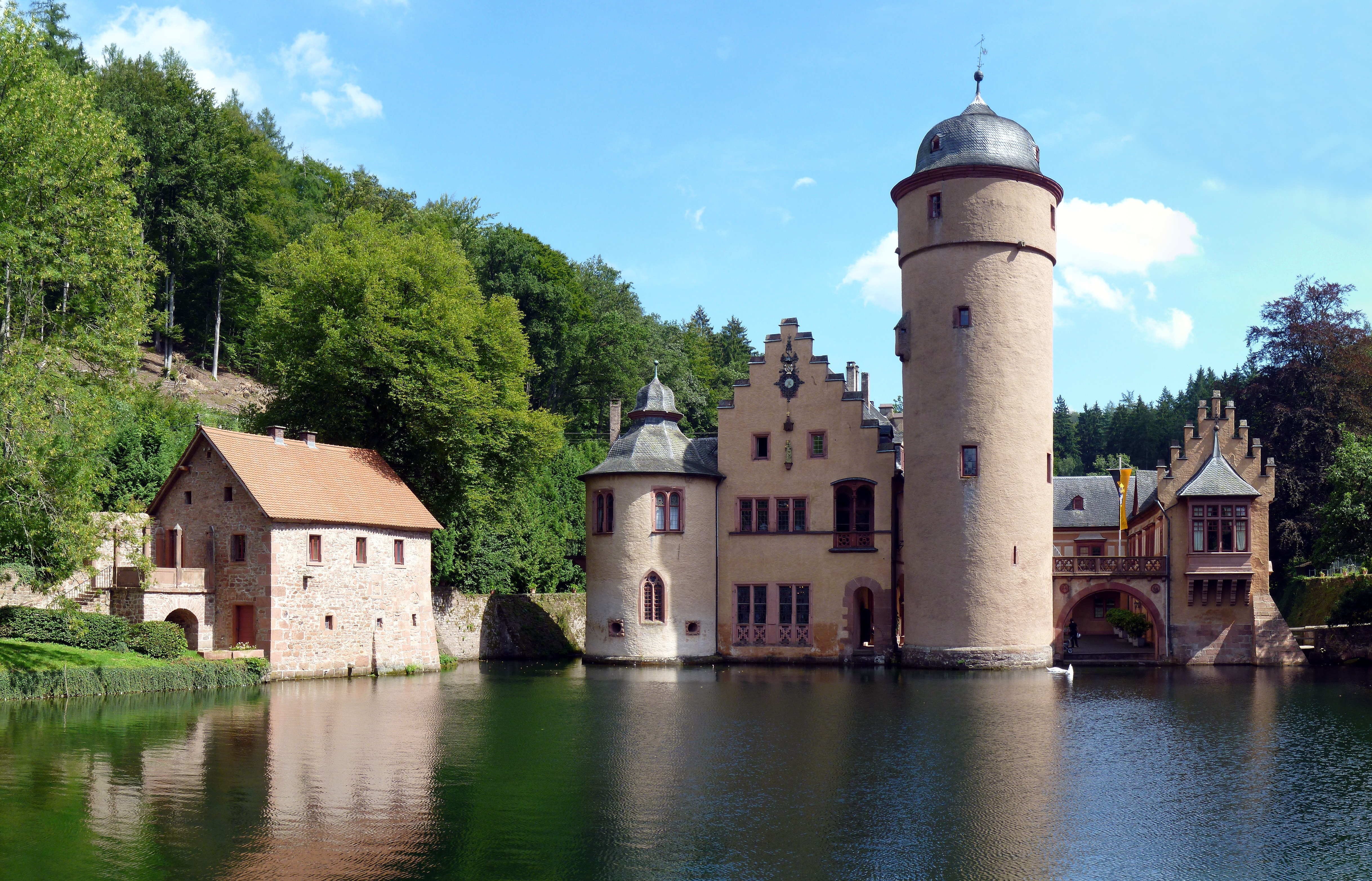 The Mespelbrunn Castle, a moated castle on the territory of the town of Mespelbrunn, is situated remotely in the Elsava valley in the Spessart (between Frankfurt and Würzburg). Since the early 15th century it has been owned by the family Echter of Mespelbrunn. The oldest parts were built in 1427, the current appearance was created from 1551 to 1569. The castle was location of the 1958 German comedy film The Spessart Inn with the famous German cinema actress Liselotte Pulver. Consequently it gained nationwide popularity. It is one of the most visited moated castles in Germany and is frequently featured in tourist books. The annual numbers of visitors are just under 100,000.